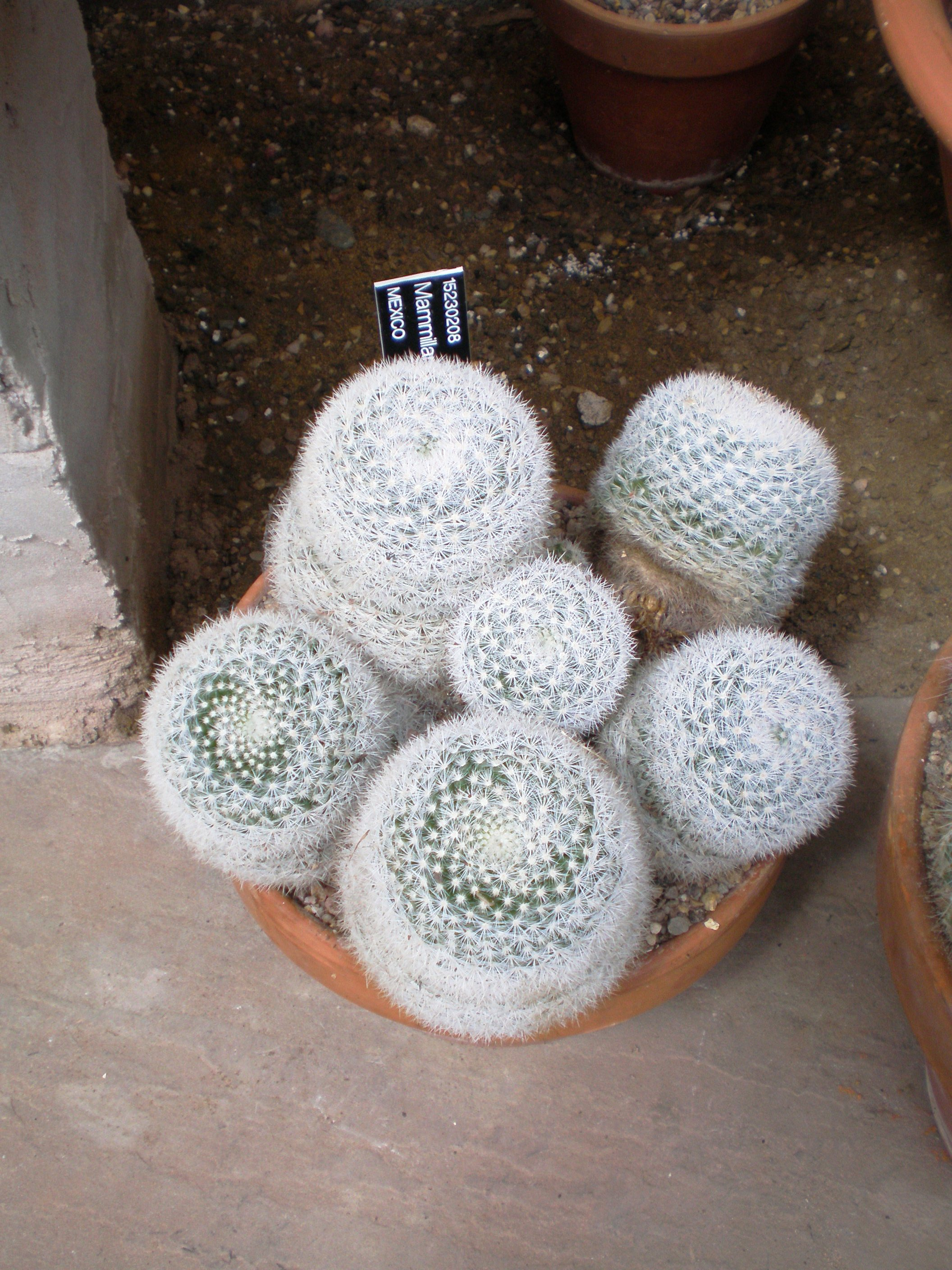 Unknown species of Mammillaria. Need help to recognize!